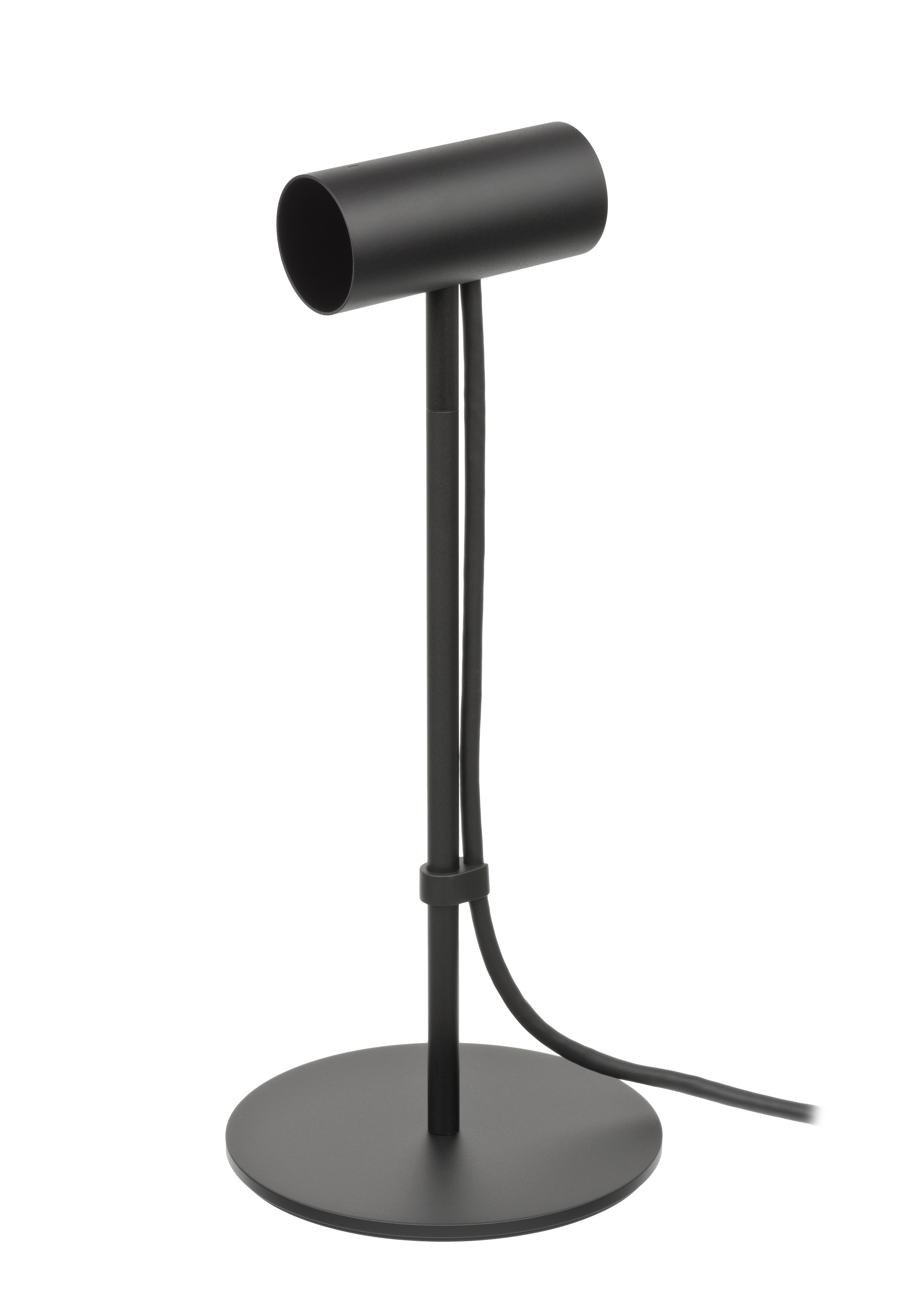 The sensor for the Oculus Rift CV1 (Consumer Version 1), a virtual reality headset made by Oculus VR and released in 2016. Needed for headset tracking, the sensor can be removed from the stand for attaching to mounts or tripods.